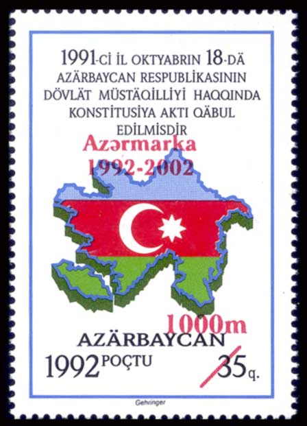 Stamp of Azerbaijan